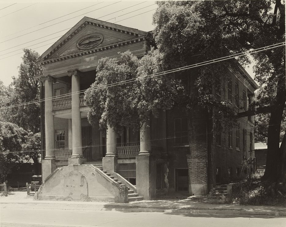 Title Choctaw, Natchez vic., Adams County, Mississippi Contributor Names Johnston, Frances Benjamin, 1864-1952, photographer Created / Published 1938. Subject Headings - United States--Mississippi--Adams County--Natchez vic. - Pediments. - Columns. - Hand railings. - Porticoes (Porches). - Houses. - Mississippi--Adams County--Natchez Vic Format Headings Photographic prints. Notes - Title from photographer's inventory. - Once home of Alvarez Fiske, philanthropist and educator. Later became Stanton College, a school for girls, but has fallen into partial ruin with encroachment of cotton mills. - Corresponding Carnegie Survey of the Architecture of the South neg. no. 1022. Library has no record of having this neg. - Forms part of: Carnegie Survey of the Architecture of the South (Library of Congress). Medium 1 photographic print. Call Number/Physical Location LOT 12634 [item] [P&P] Repository Library of Congress Prints and Photographs Division Washington, D.C. 20540 USA Digital Id ppmsca 23941 //hdl.loc.gov/loc.pnp/ppmsca.23941 cph 3c15698 //hdl.loc.gov/loc.pnp/cph.3c15698 Control Number csas200907155 Reproduction Number LC-DIG-ppmsca-23941 (digital file from print) LC-USZ62-115698 (b&w film copy negative) Rights Advisory No known restrictions on publication. Online Format image Description 1 photographic print.